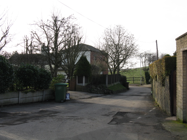 Lane At Healds Green, Chadderton